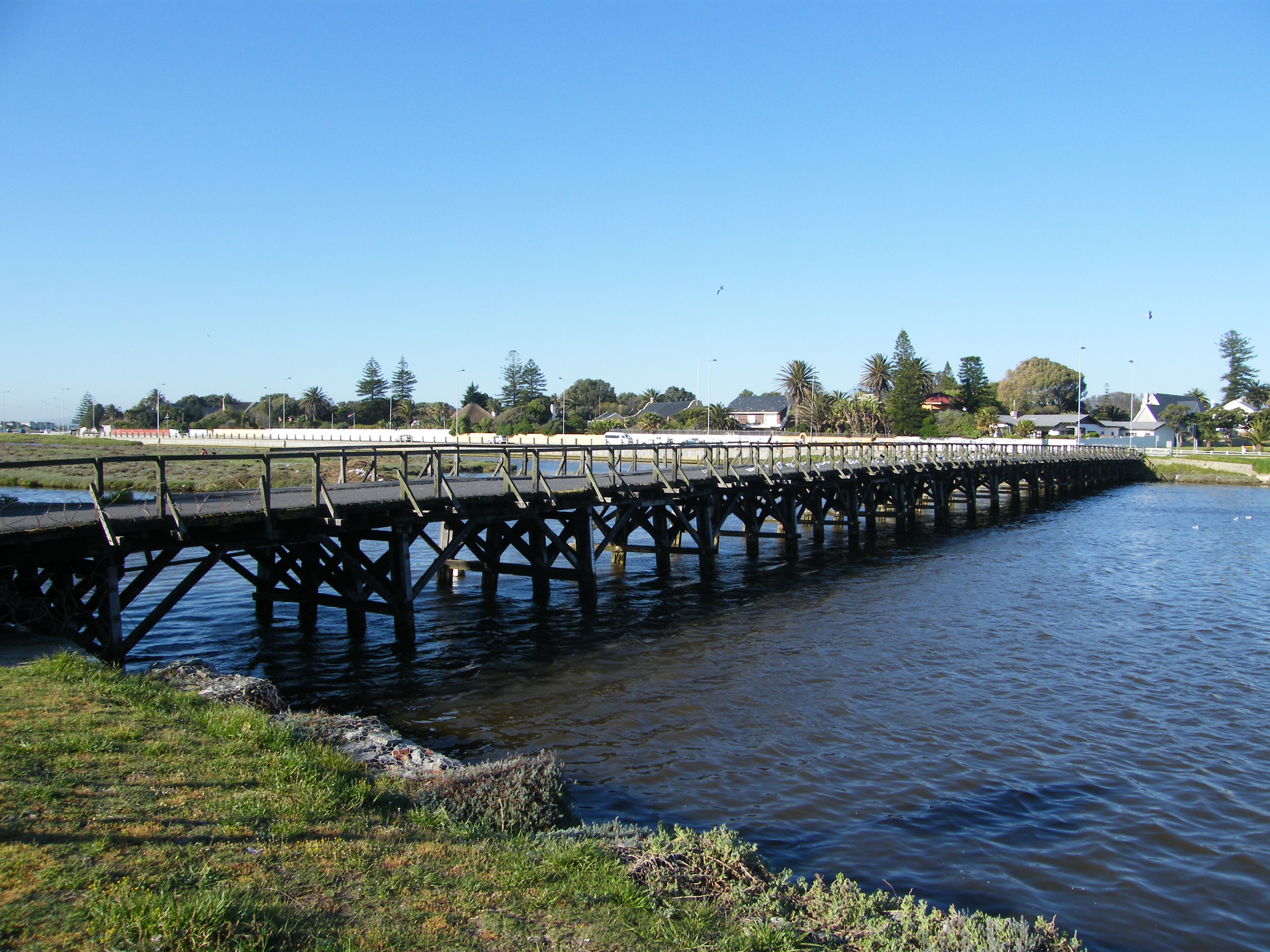 Old Wooden Bridge